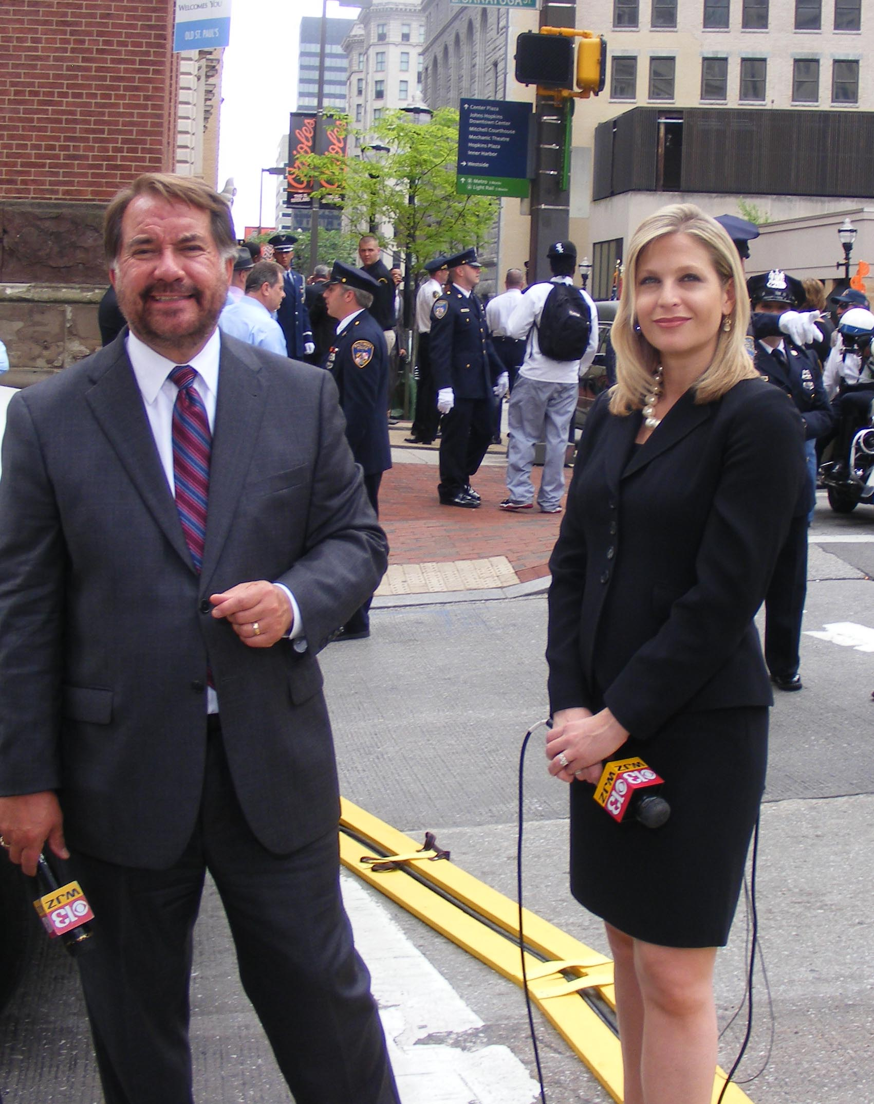 wjz reporters on live shot